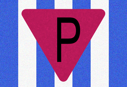 Auschwitz camp patch with letter "P" required to wear for Polish, non-Jewish inmates. German Nazi death camp Auschwitz in Poland 1940-1945.